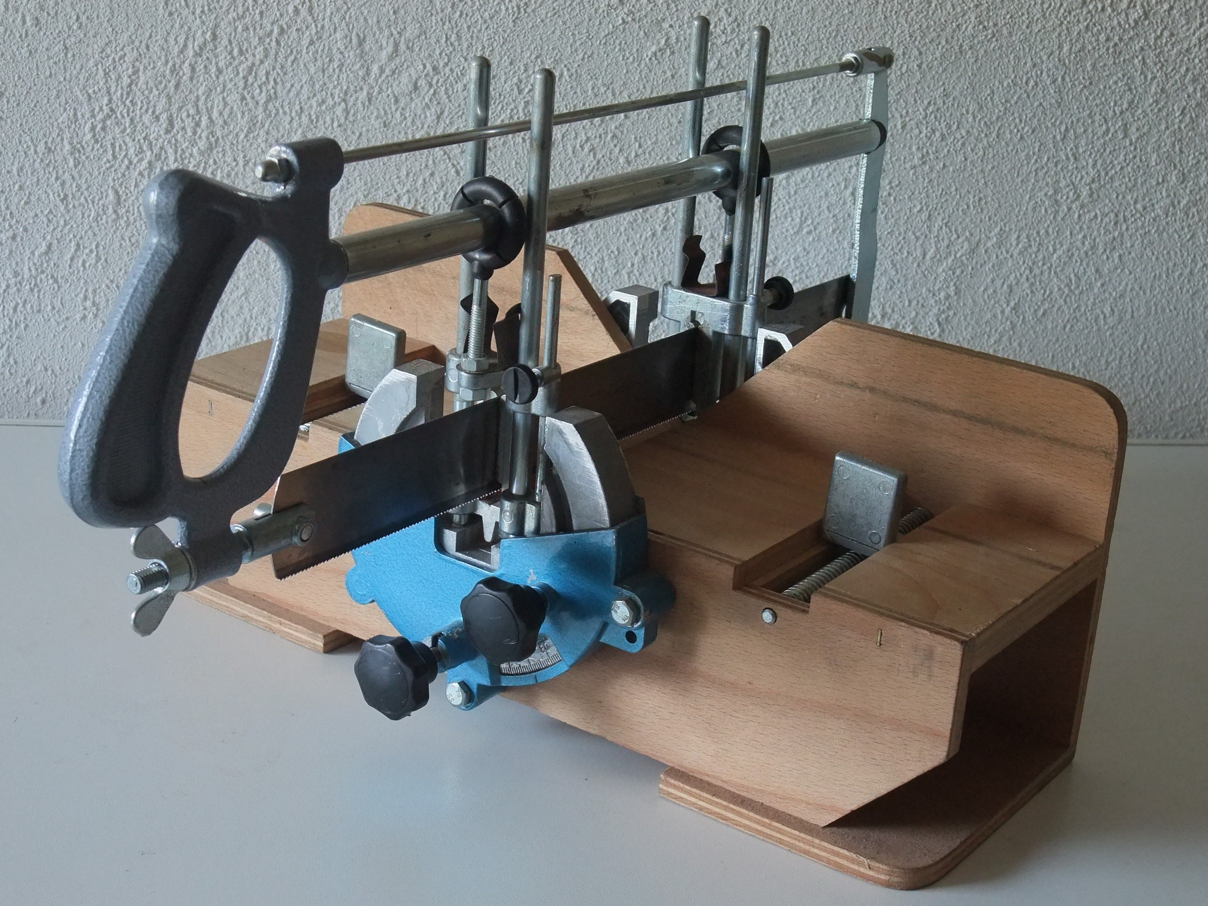 manual miter saw